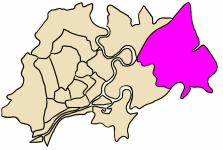 position of district 9 in the city centre of HCMC (Ho Chi Minh City, Vietnam) - ISO code VN-F-HC. Keywords: map, outline, city, Ho Chi Minh City, HCMC, HCM, district 9, quan 9.